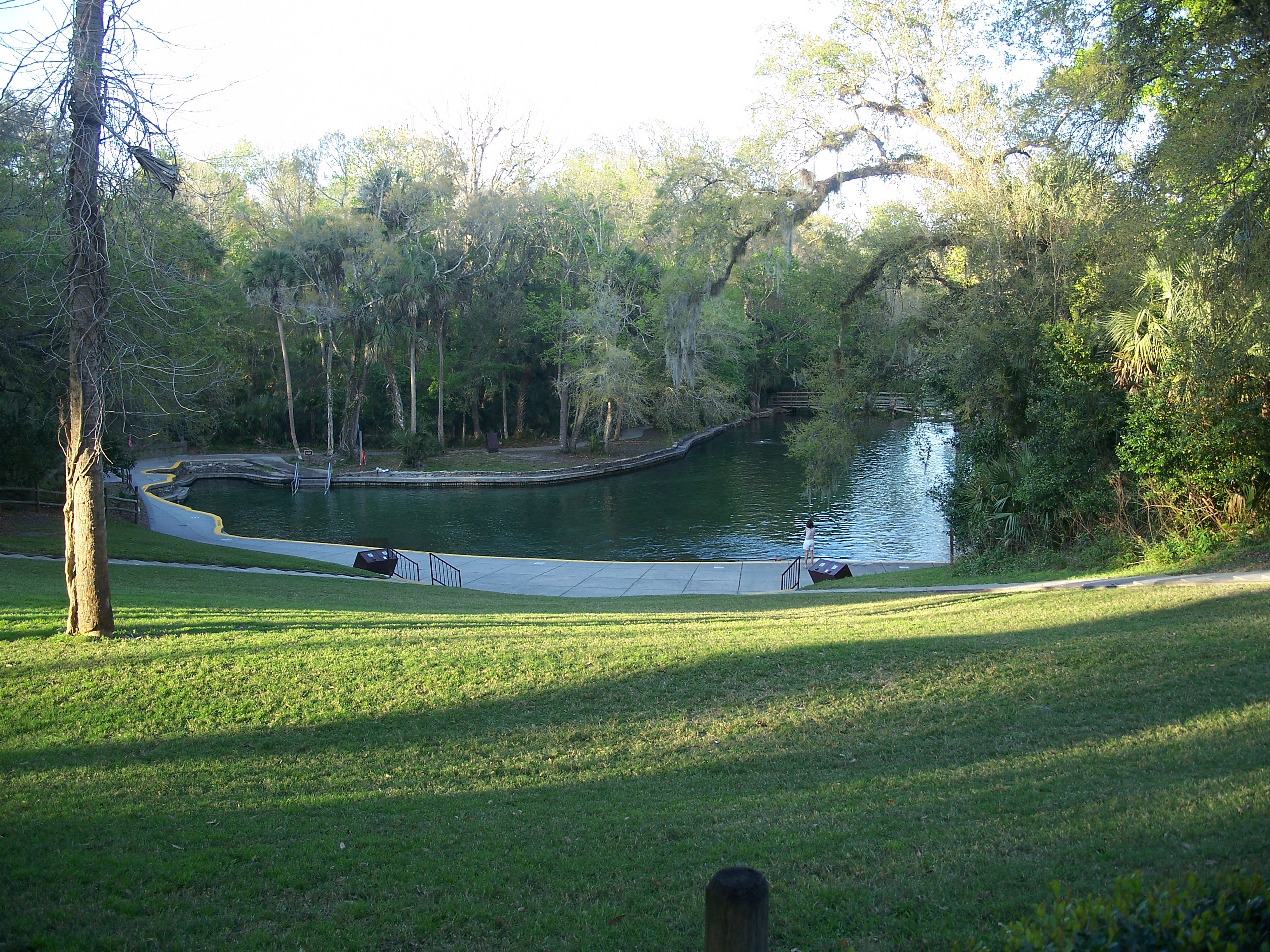 Springs swimming area in Wekiwa Springs State Park in Apopka, Florida